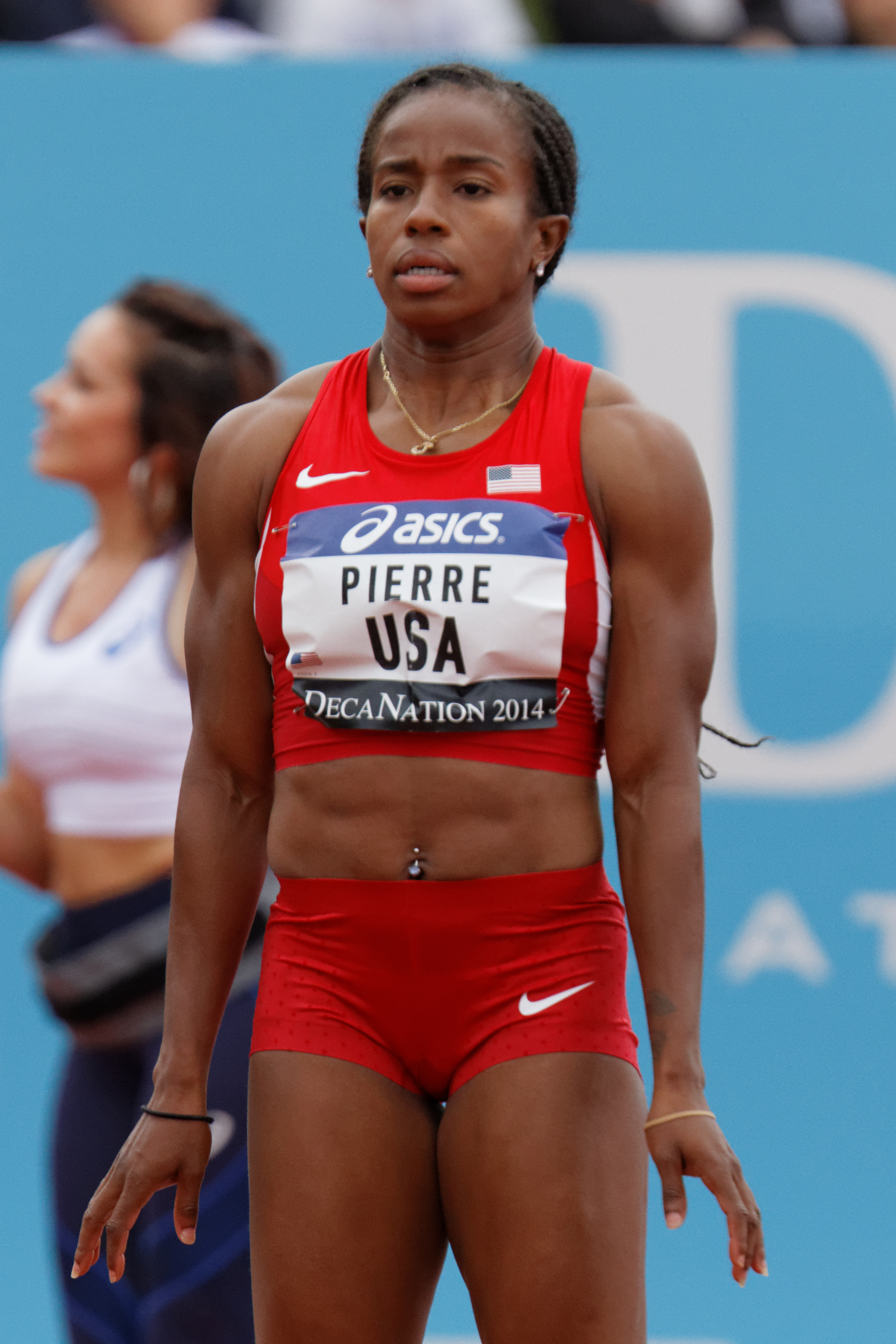 DécaNation 2014. 100m.